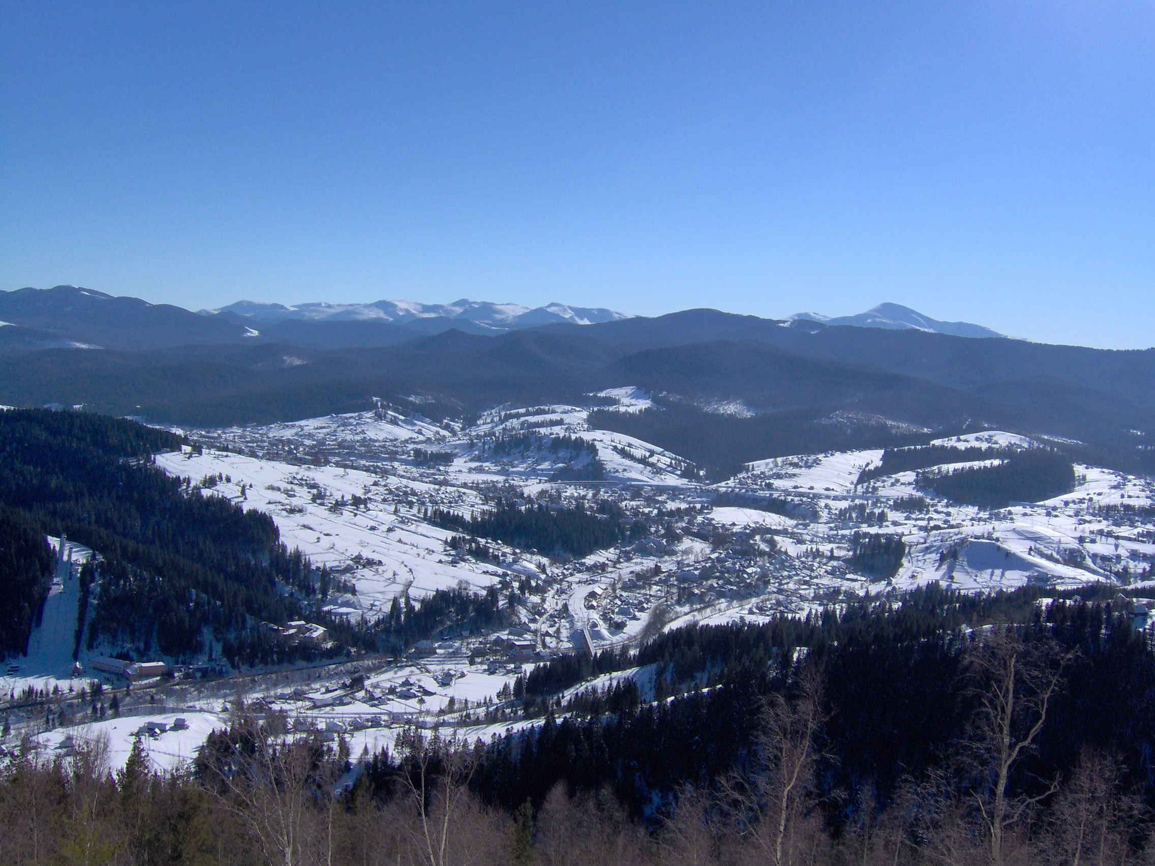 Ukraine, Vorokhta. View from the mount.